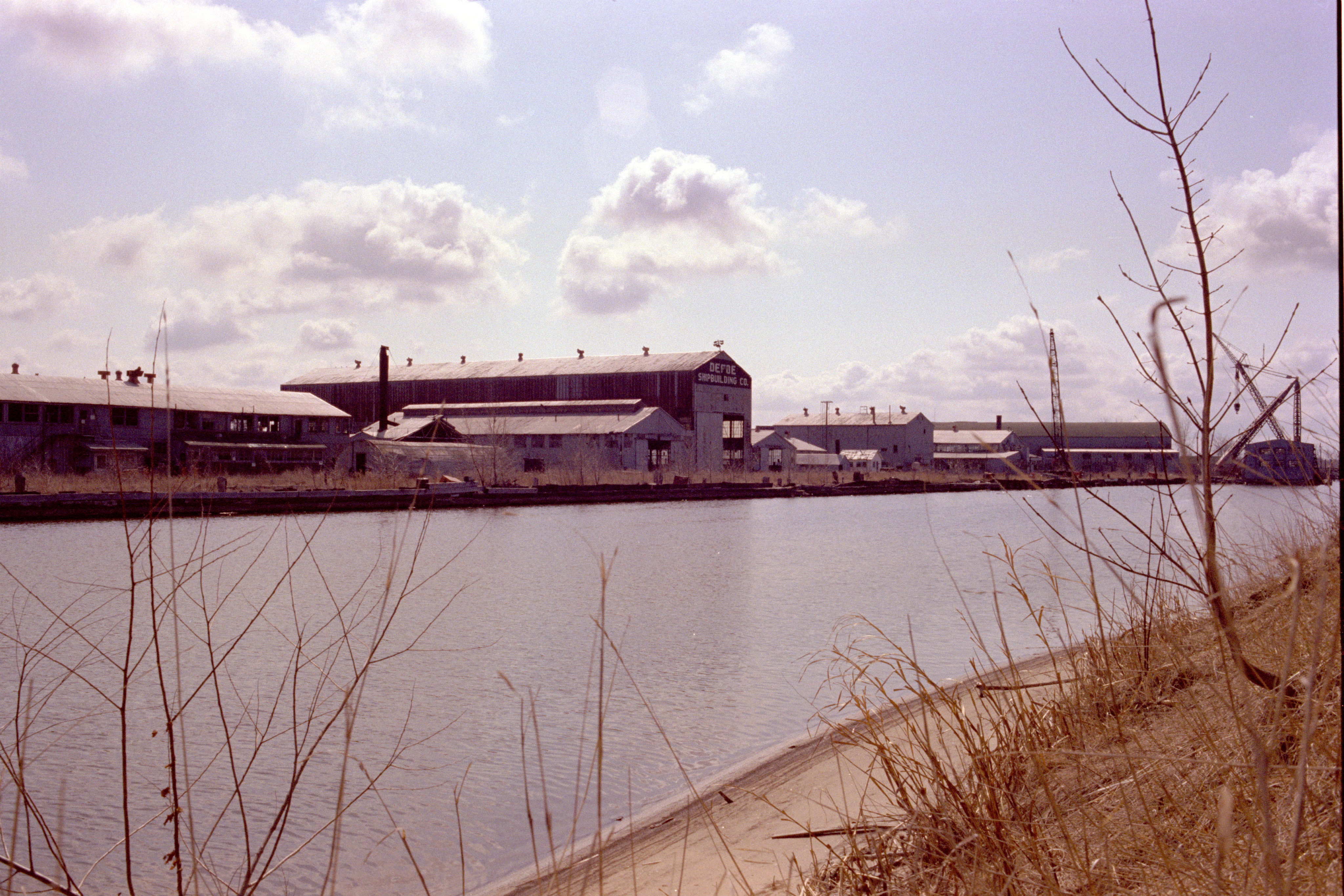 Abandoned Defoe shipbuilding yards, Bay City, Michigan spring 1981